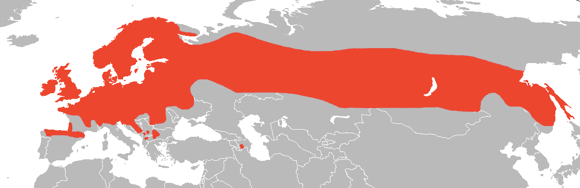 Cropped version of